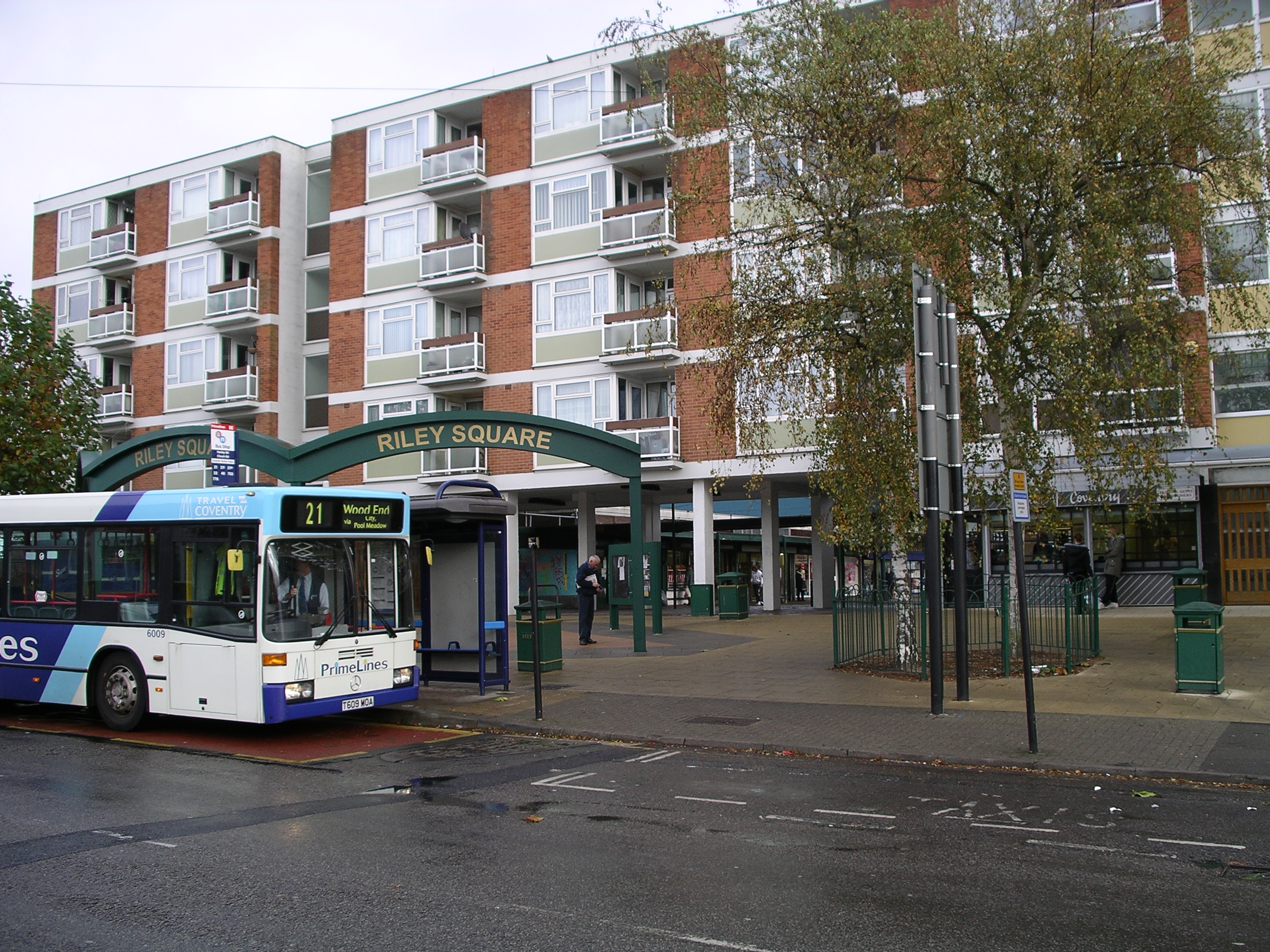 Photo of one of the entrances of Riley Square on Henley Road, Bell Green, Coventry, England. The bus is Travel Coventry 6009 (T609 MOA).